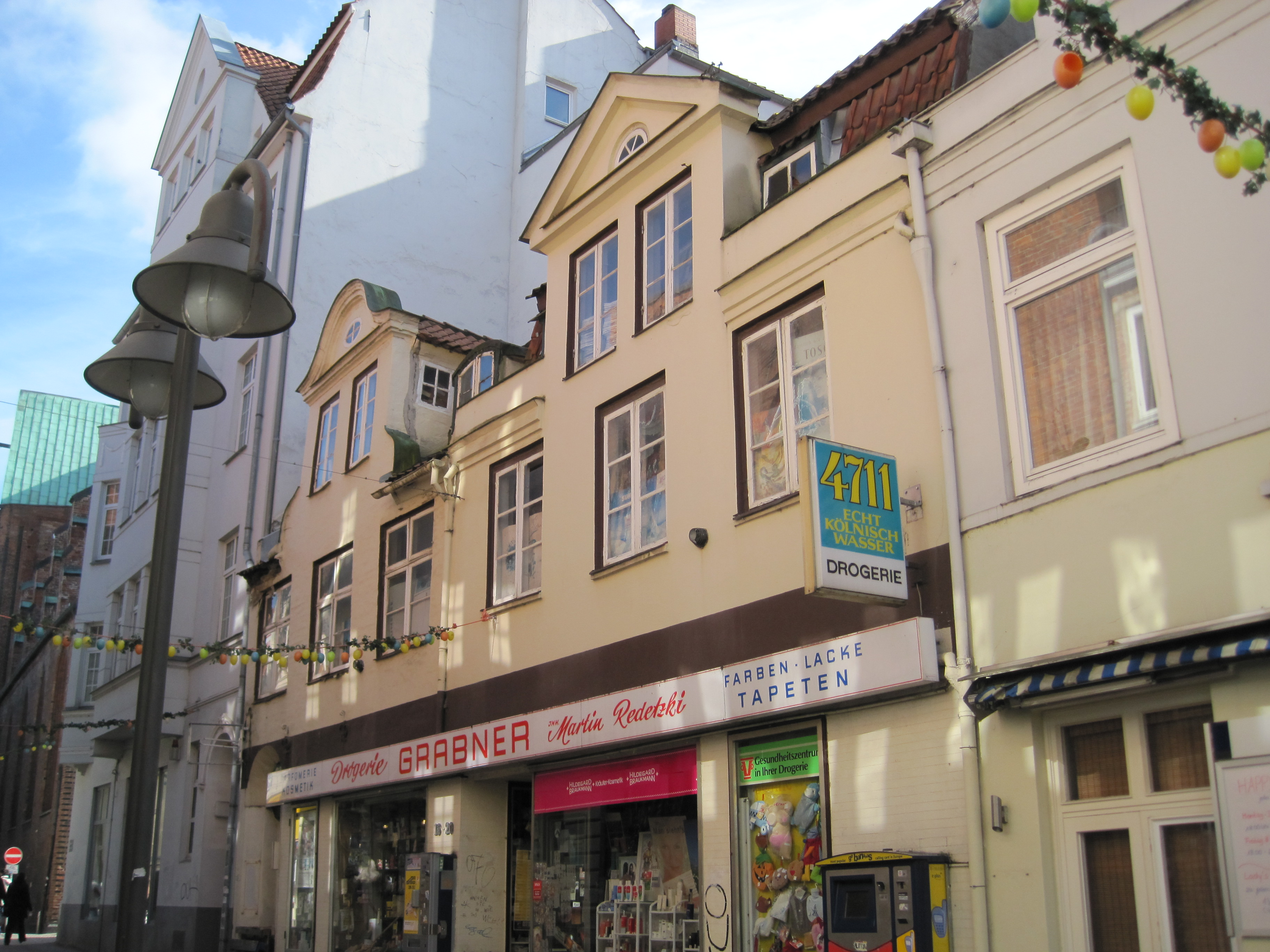 Buildings in Pfaffenstraße of Lübeck's old town.